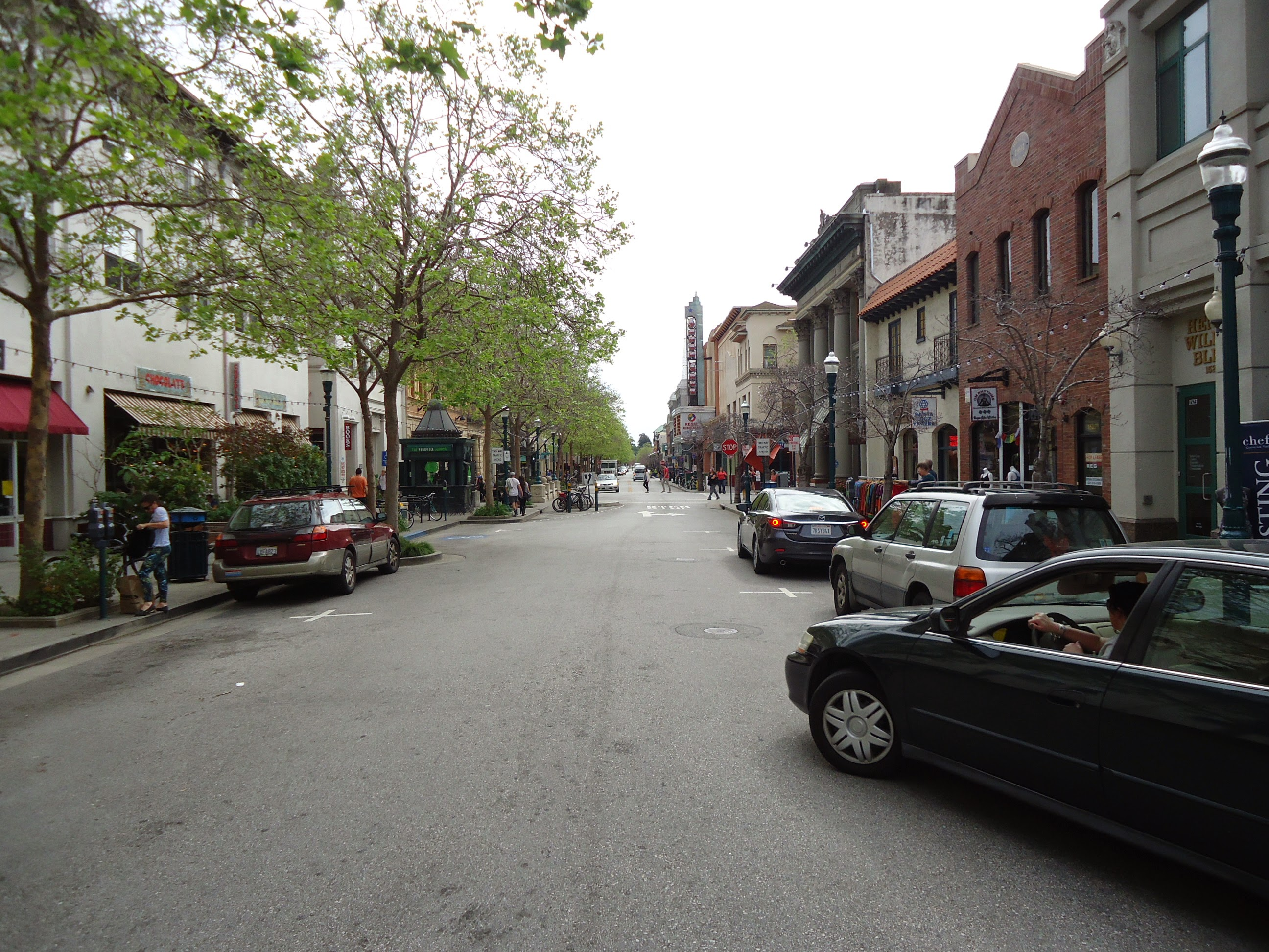 Streetscape in Santa Cruz, California